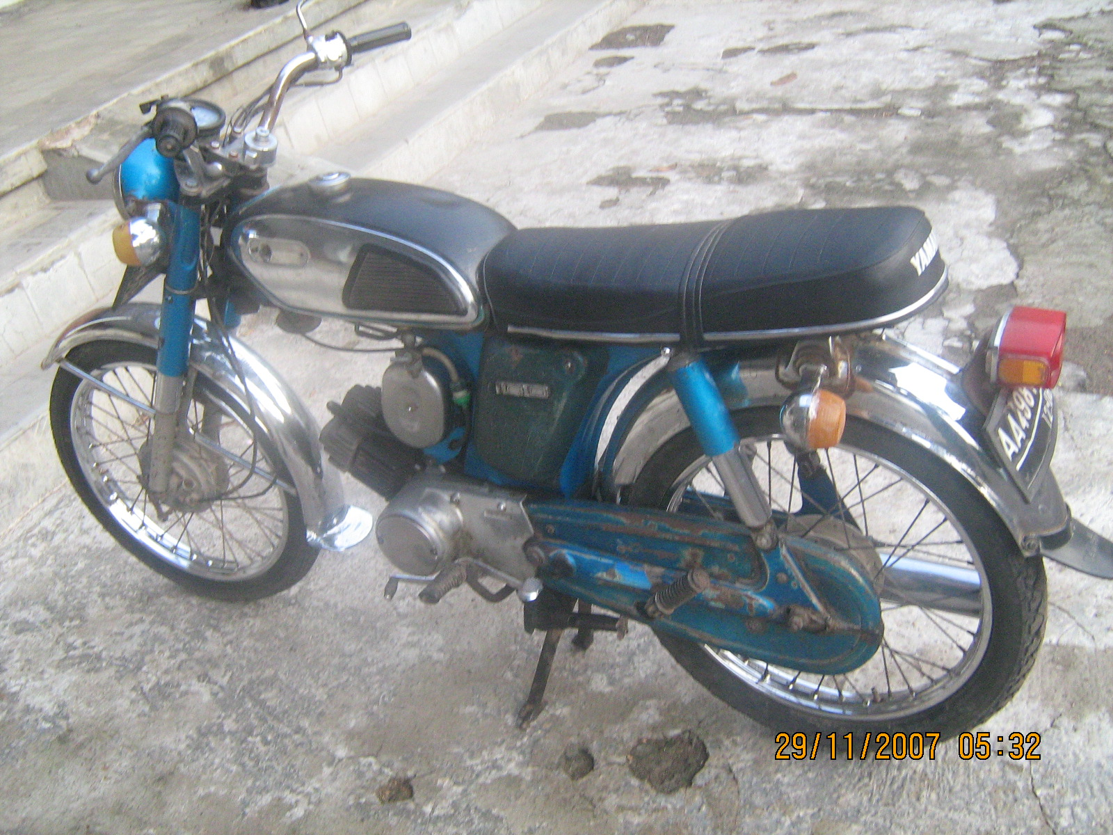 A 1979 Yamaha L2 from Tersan Gede,Indonesia